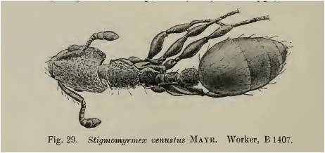 Illustration of Stigmomyrmex venustus by William Morton Wheeler 1915